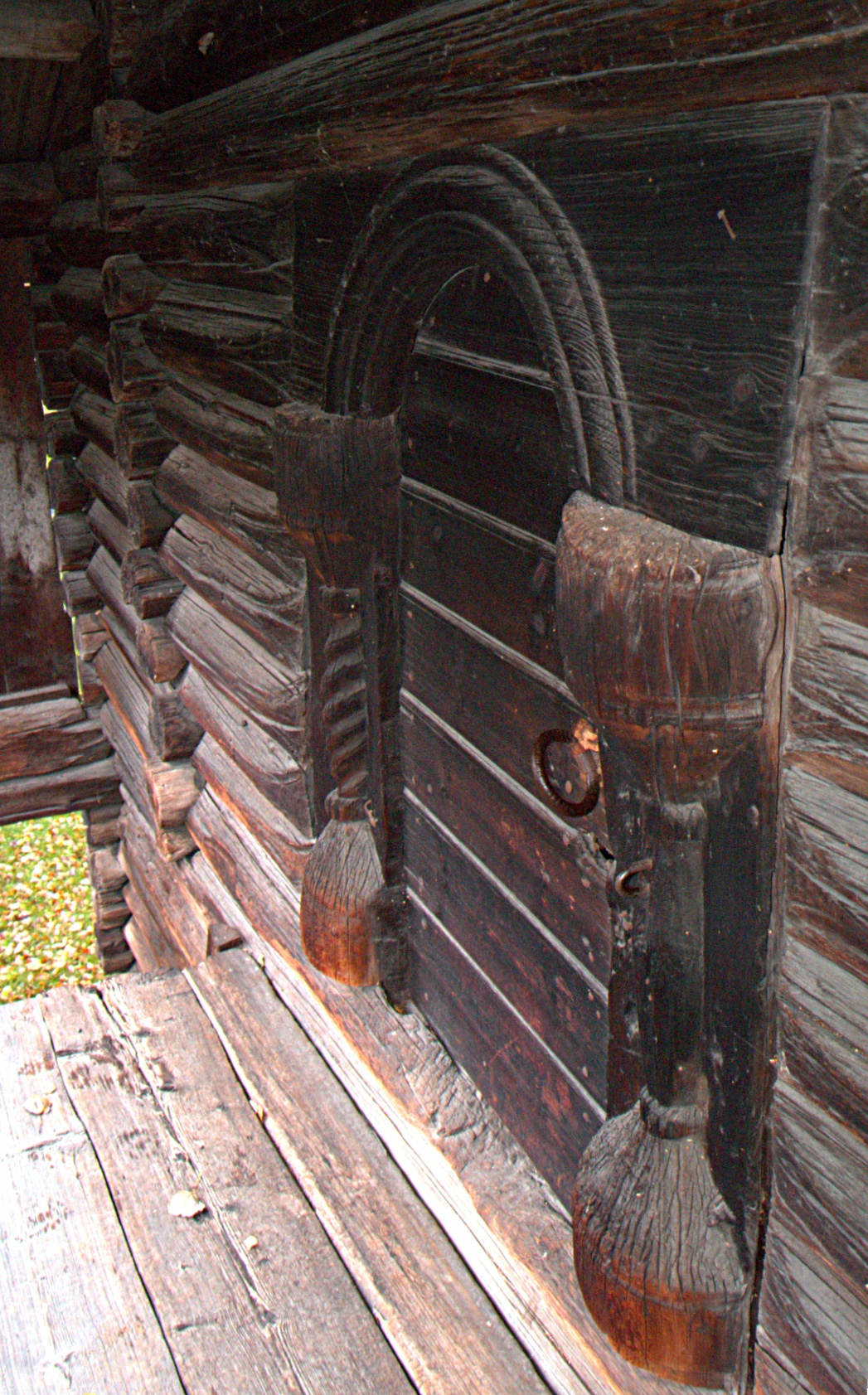 Door with decorations, Hoveloftet